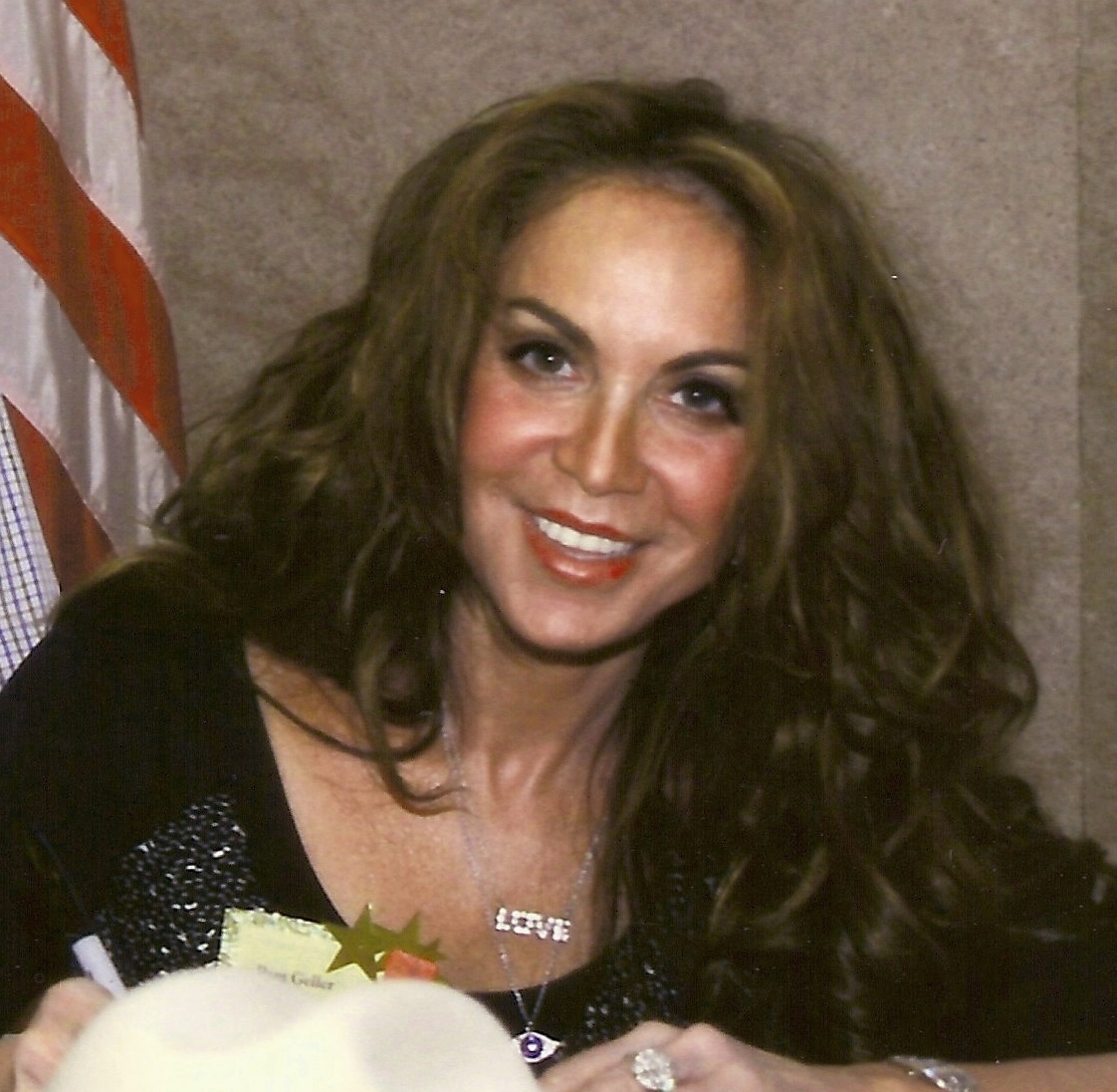 Photo of Pamela Geller